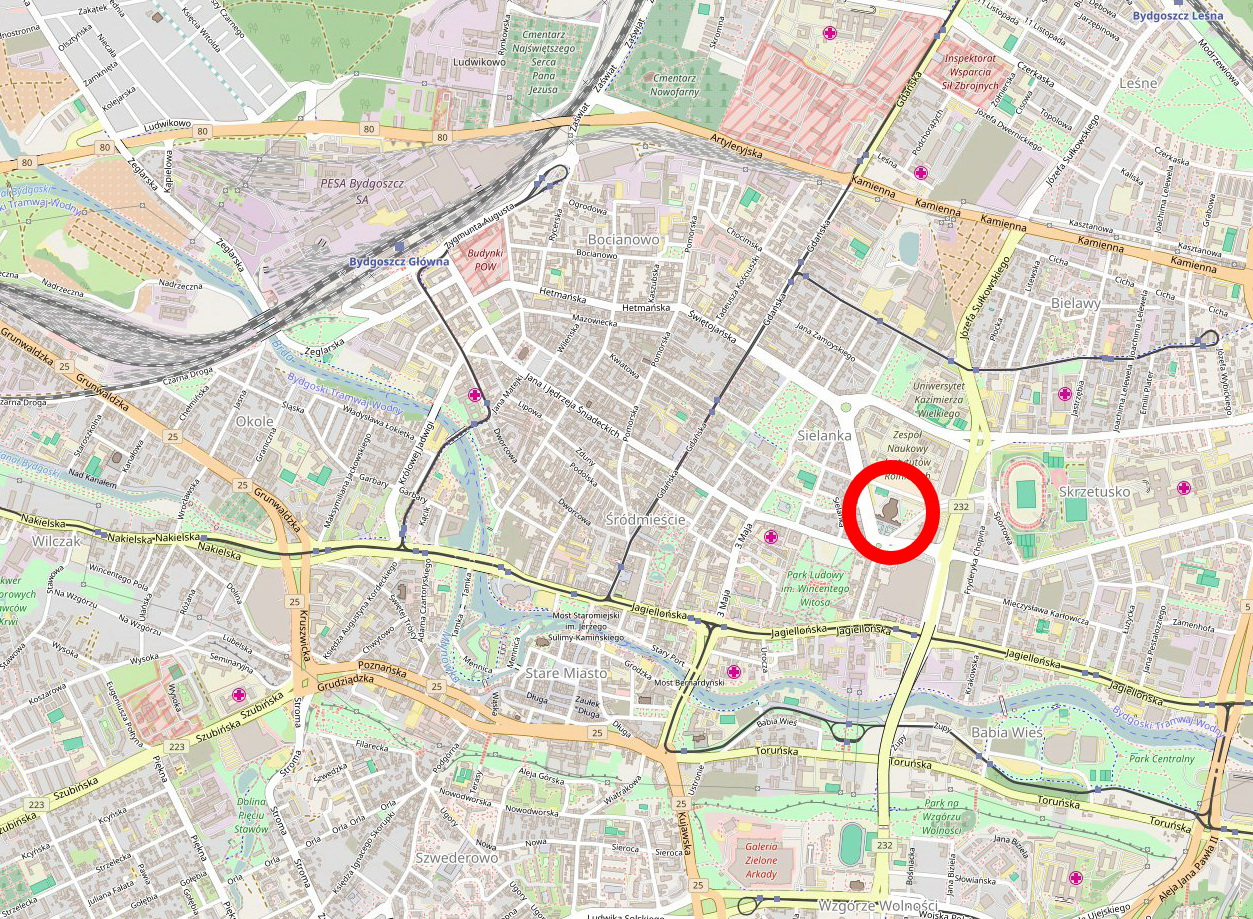 Map with location